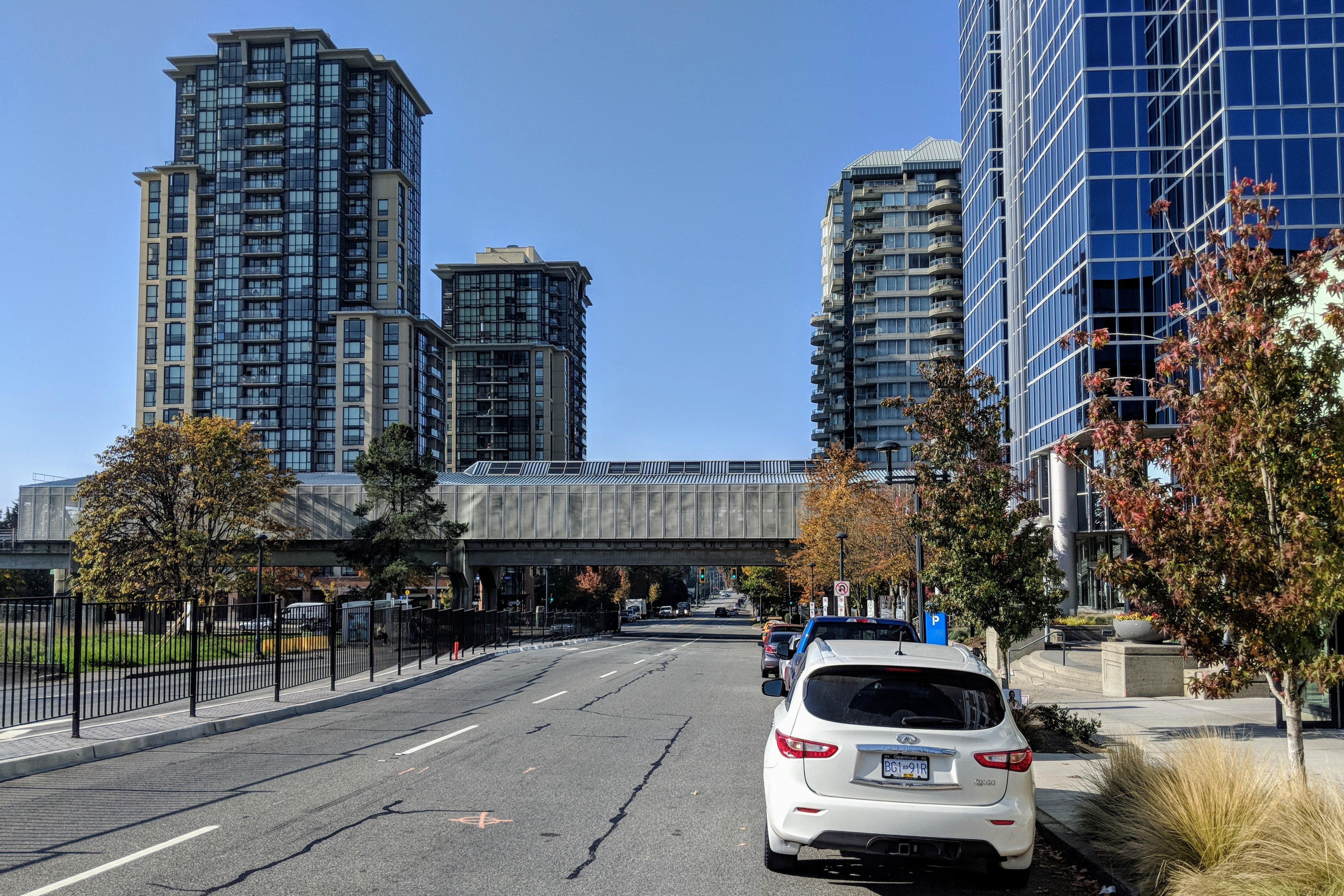 Gateway station viewed from the east in October 2018.